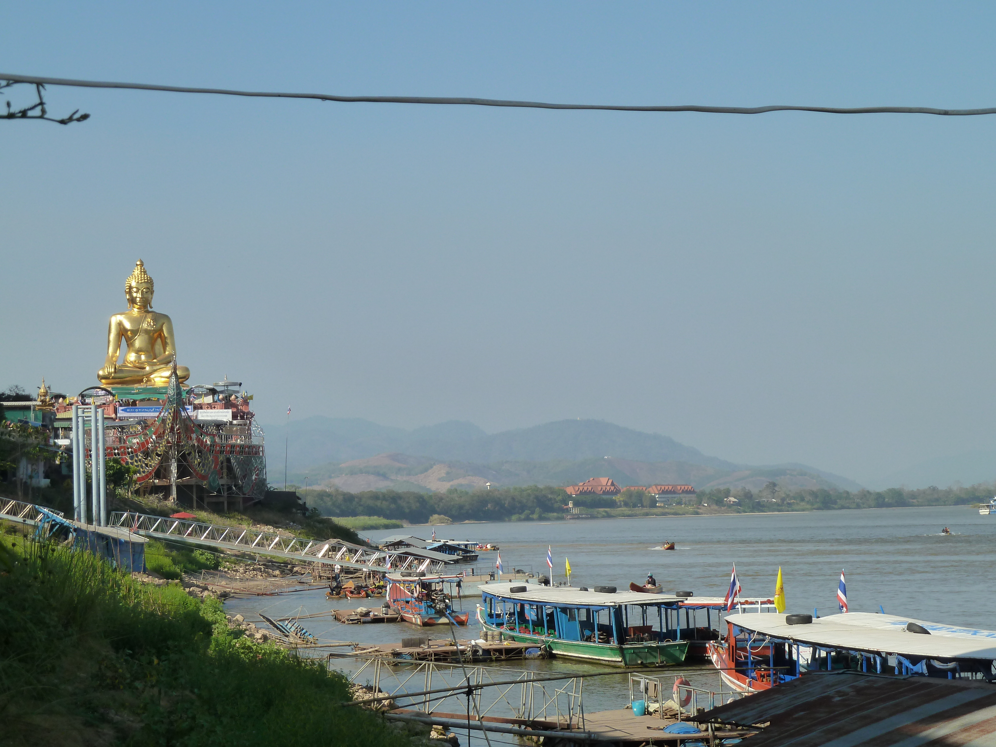 Mekong Golden Triangle, Mekong River at the meeting of the Laos, Myanmar and Thailand Borders